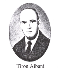 Romanian politician, writer and publicist Tiron Albani, deputy in the Great National Assembly from Alba Iulia - Romania, 1918Română: Tiron Albani, om politic, publicist, scriitor și deputat în Marea Adunare Națională de la Alba Iulia, 1918